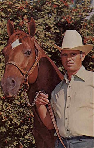 A postcard of Michigan Quarter Horse Association Hall of Fame horse Eternal Sun and his owner, Harold Howard.